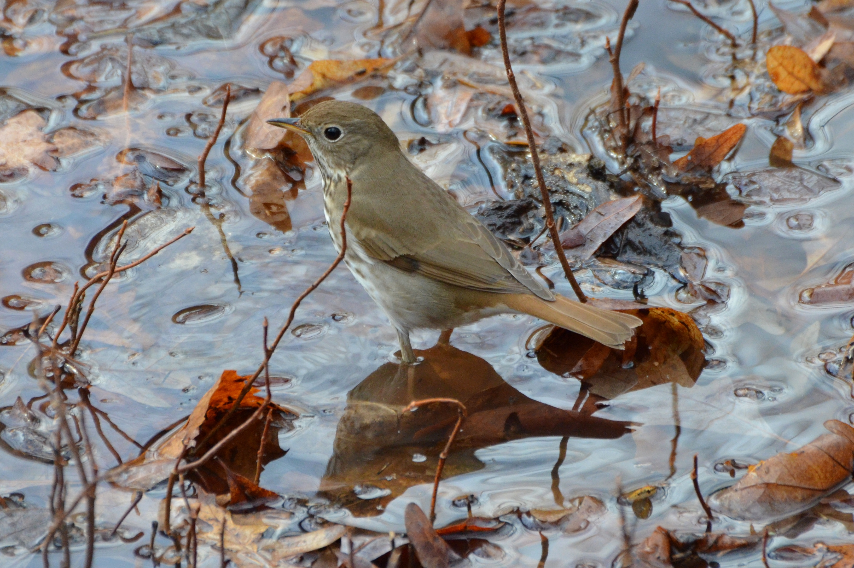 Carondelet Park, St. Louis Missouri 4/3/14, sun is setting